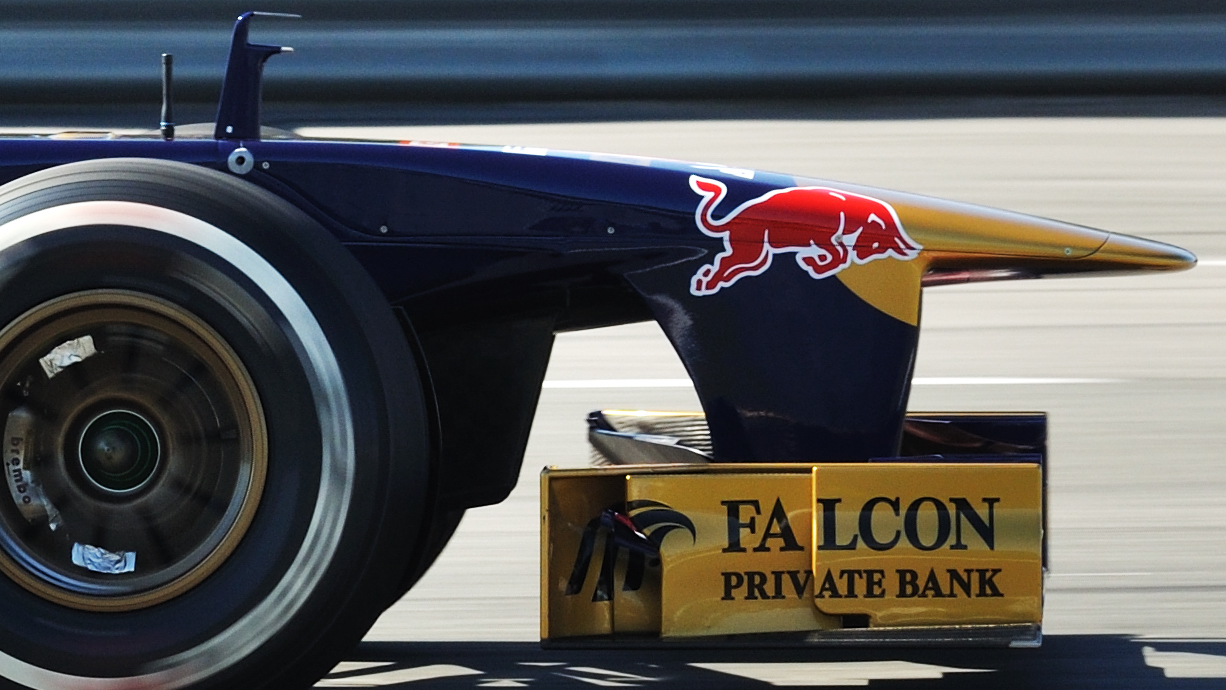 Crop version File:F1 2013 Jerez test - Toro Rosso 2.jpg